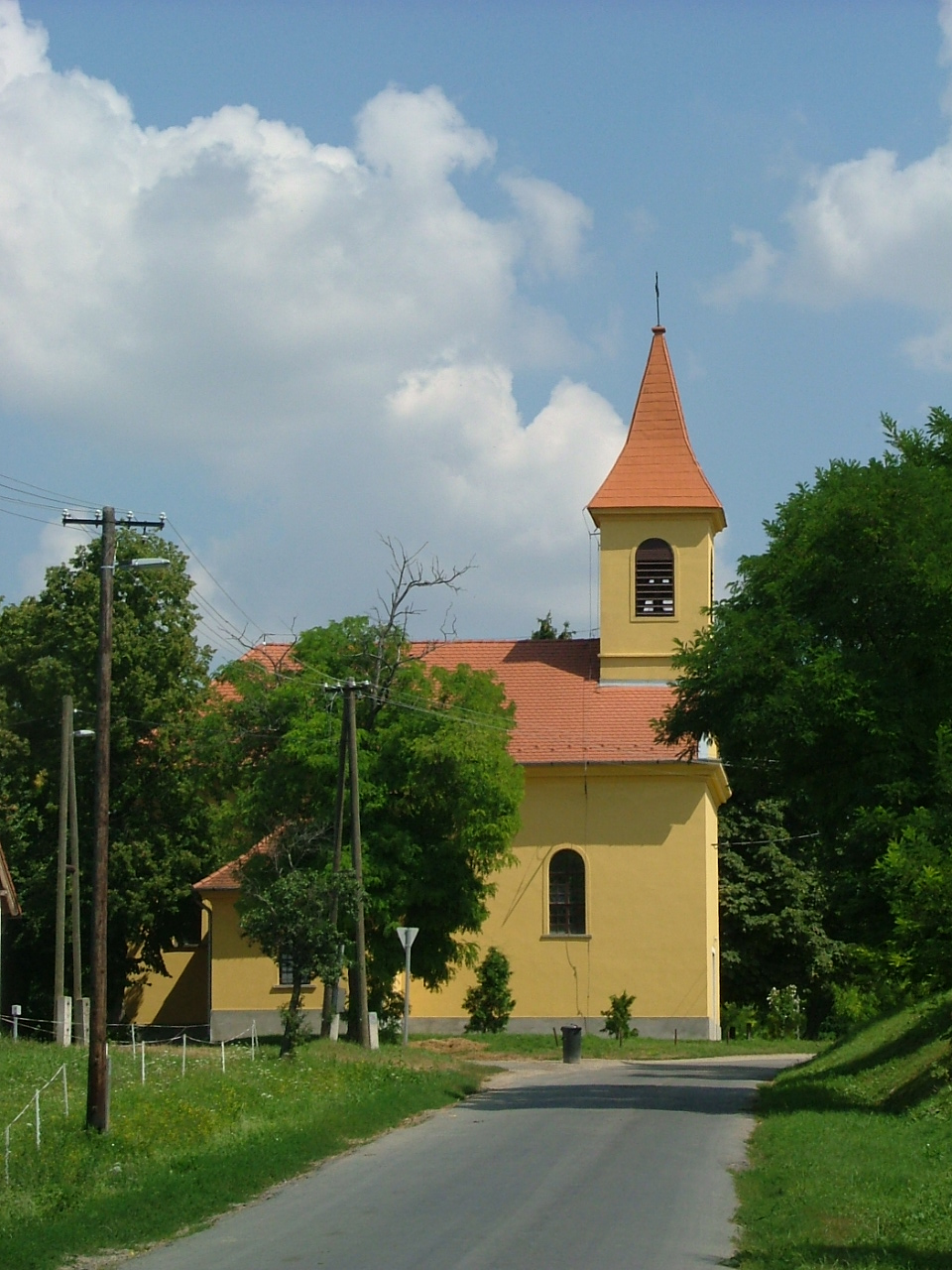 The Saint Anne roman catholic church in Sikátor This is a photo of a monument in Hungary, Identifier: 4688